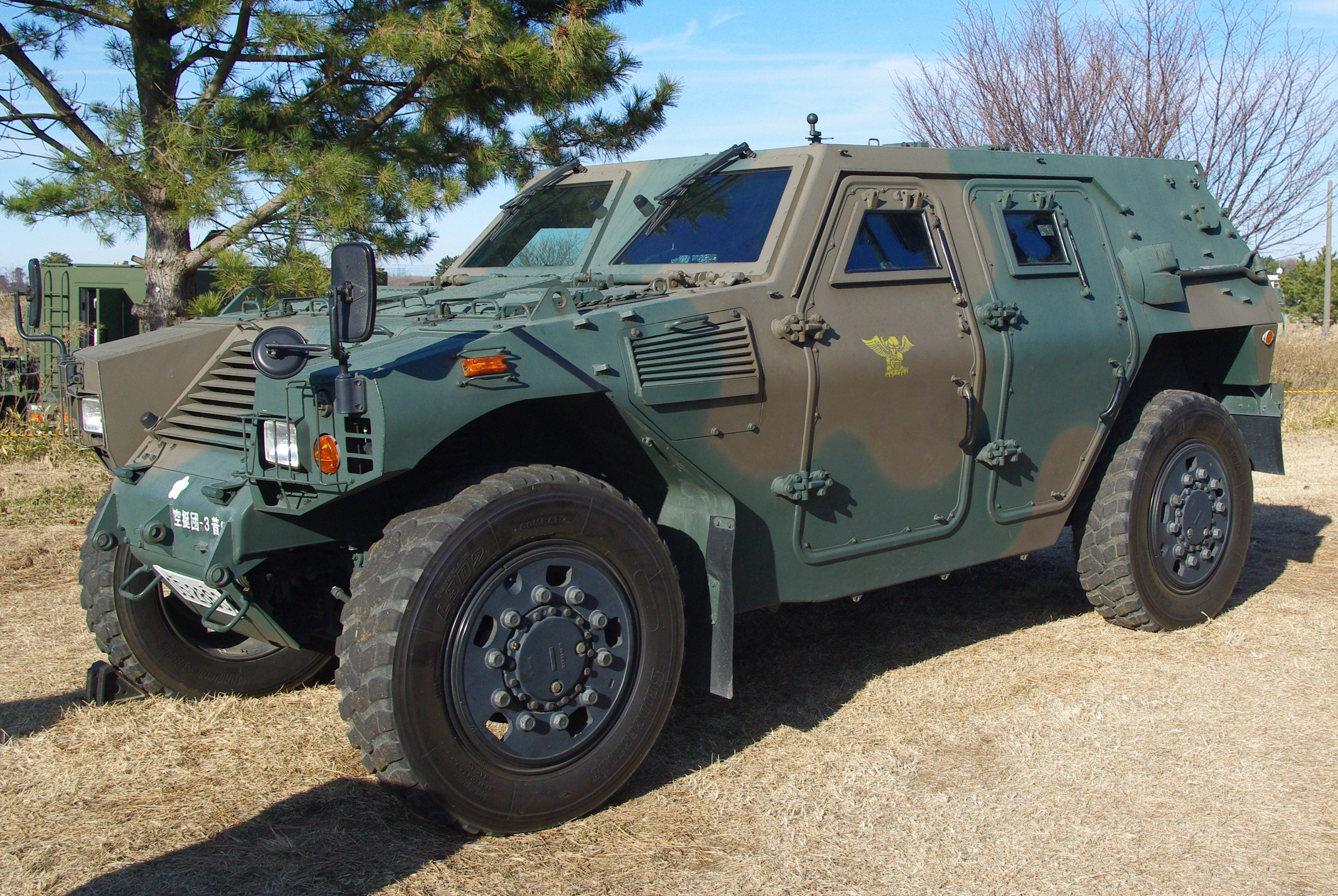 JGSDF Light Armored vehicle.Taken by Los688,in Narashino,Japan,at 08-Jan-2012,JGSDF 1st Airborne Brigade 2012 first drop manuver.PD-self 軽装甲機動車 2012年01月08日、習志野演習場で撮影。